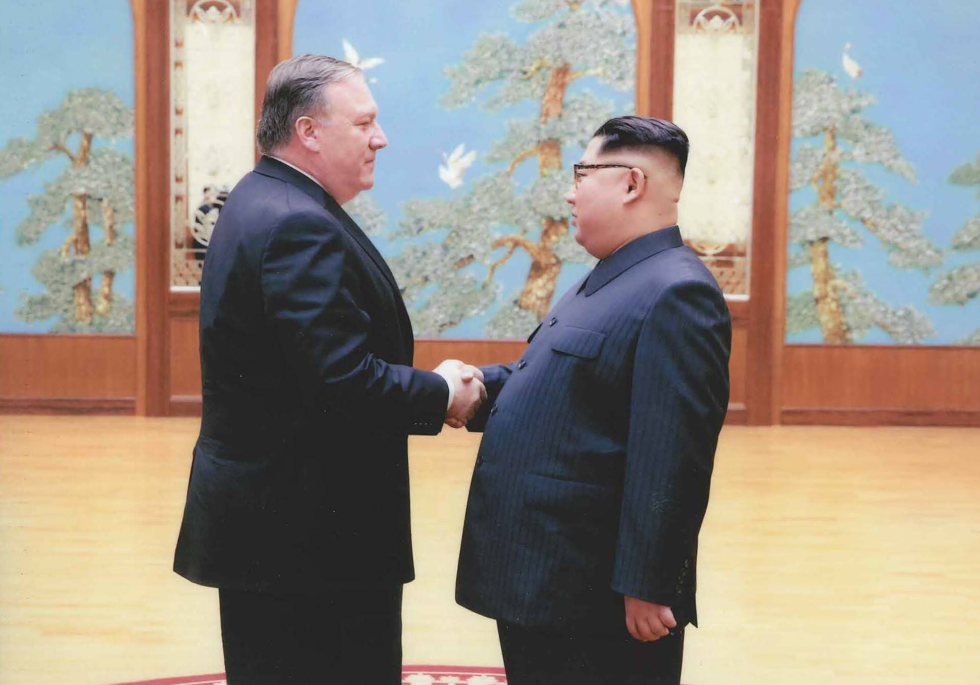 Photos of Secretary of State Pompeo in North Korea. Secretary Pompeo will do an excellent job helping President Trump lead our efforts to denuclearize the Korean Peninsula.